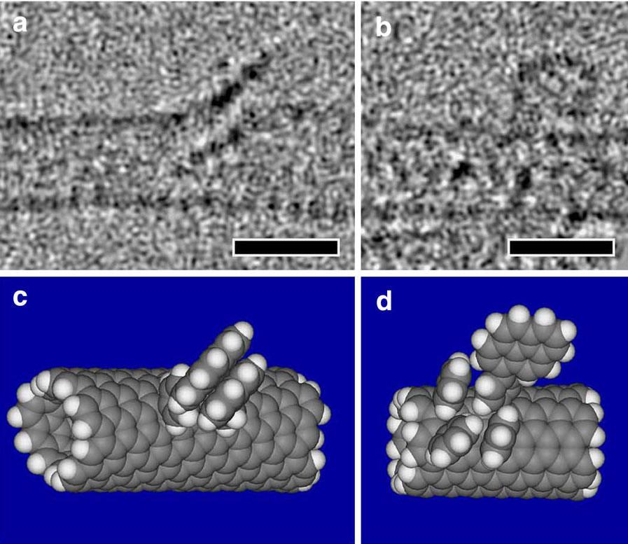 (a,b) HR-TEM images of (a) Py-1-SWNT and (b) Py-2-SWNT. Scale bar, 1 nm. (c,d) Model structures of (c) paired PP groups on the (9,4) SWNT model and (d) one PP and three phenyl groups on the (6,6)SWNT model optimized by DFT calculations at the RB97D/3-21G* level.